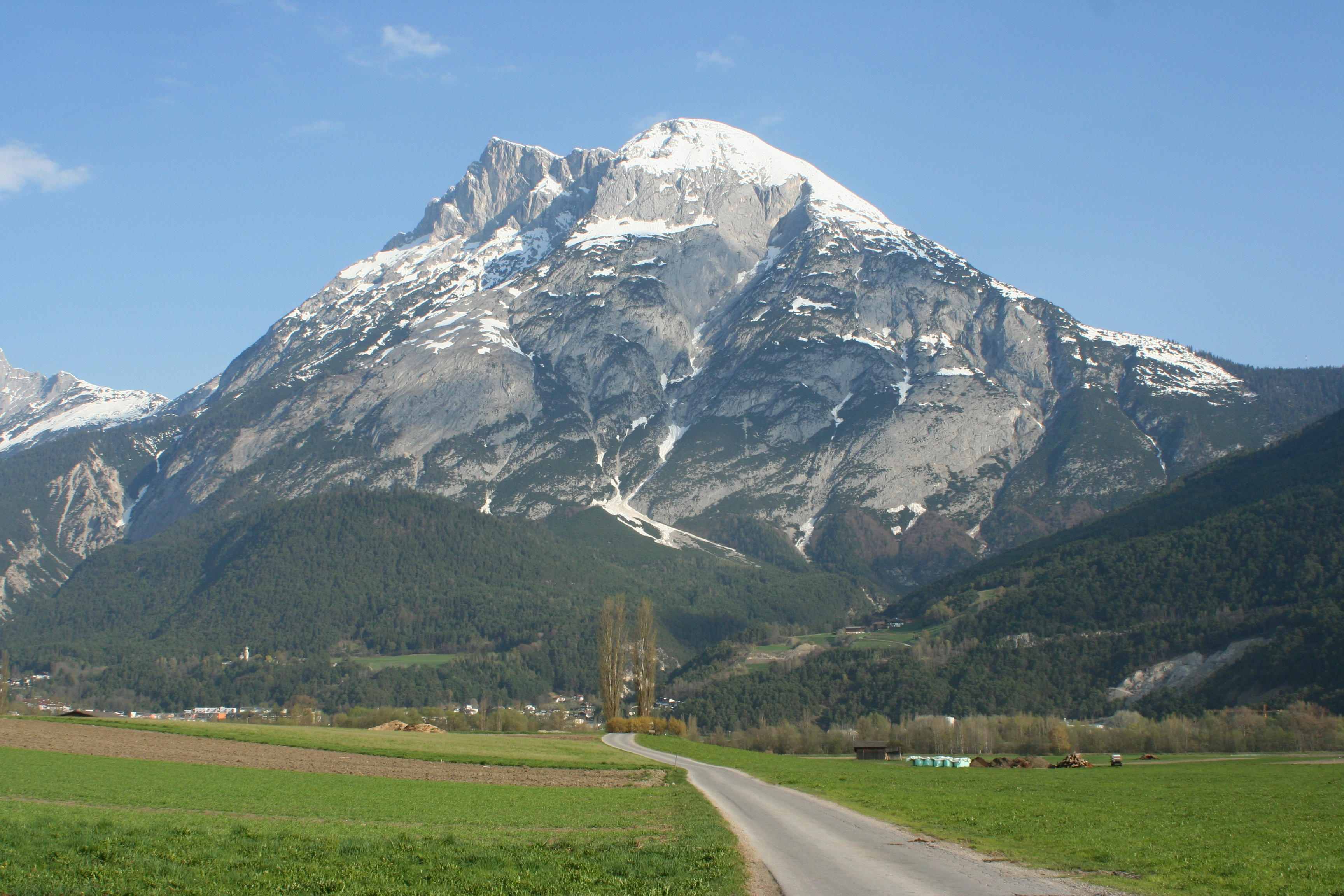 The Hohe Munde from the Inntal near Oberhofen